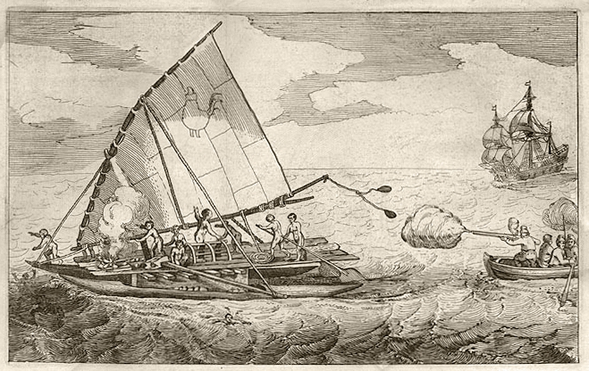 The Dutch ship De Eendracht attacks a catamaran in the Southern Pacific.